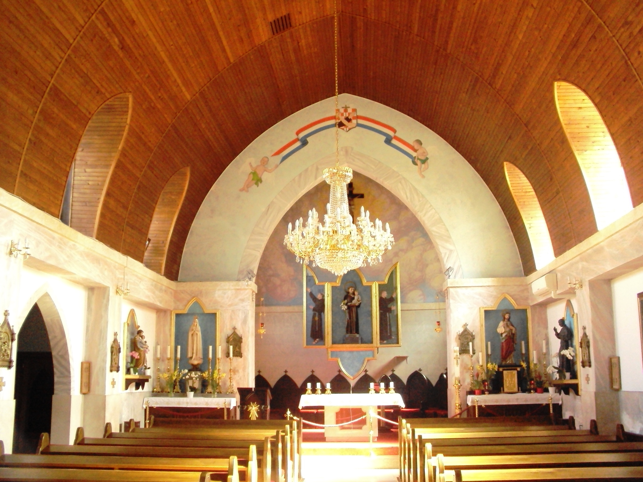 Church interior of Church of Saint Anthony of Padua in Bjelovar, Croatia